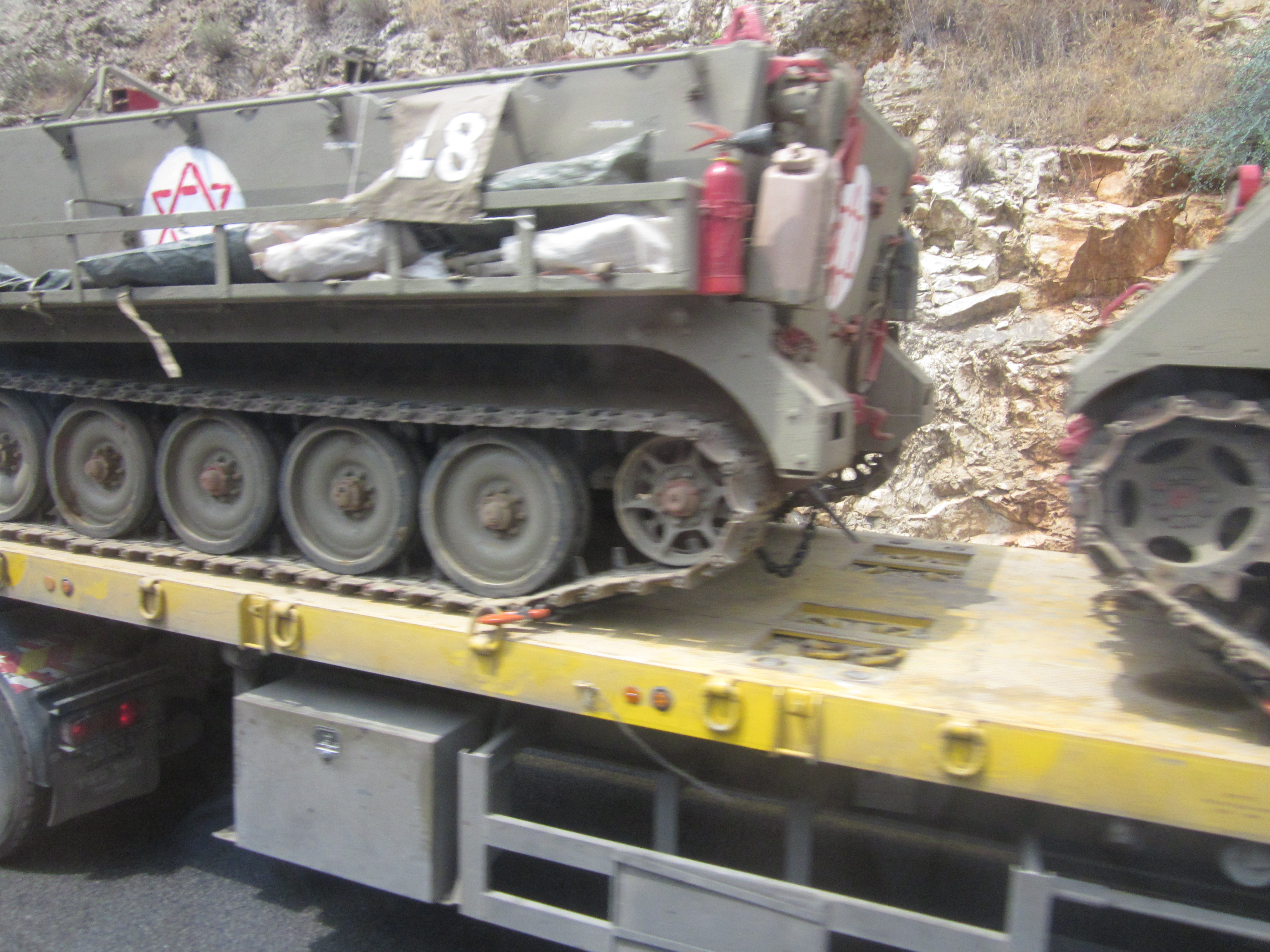 Ngms Medical Corps truck